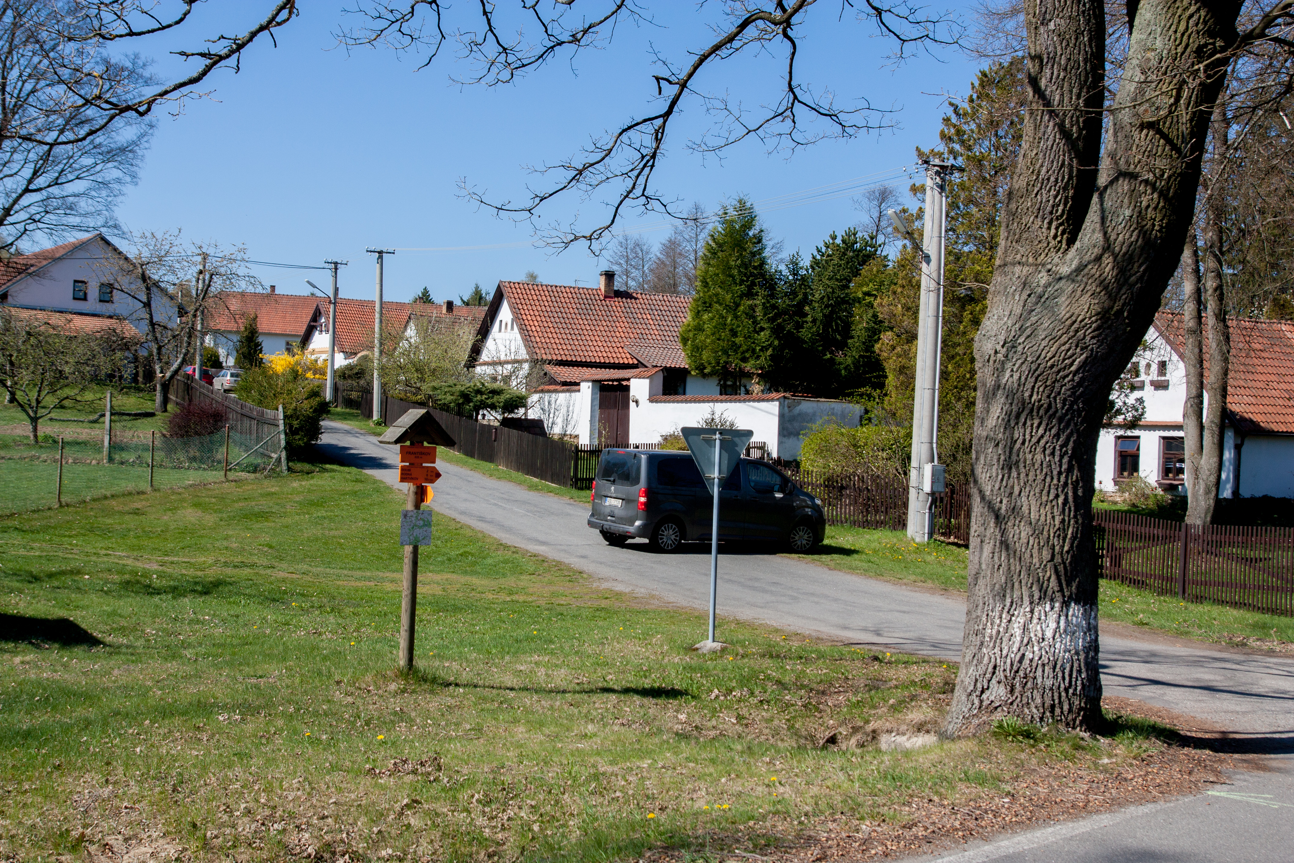 Turnoff in municipality Františkov, Tábor District, South Bohemian Region, Czechia